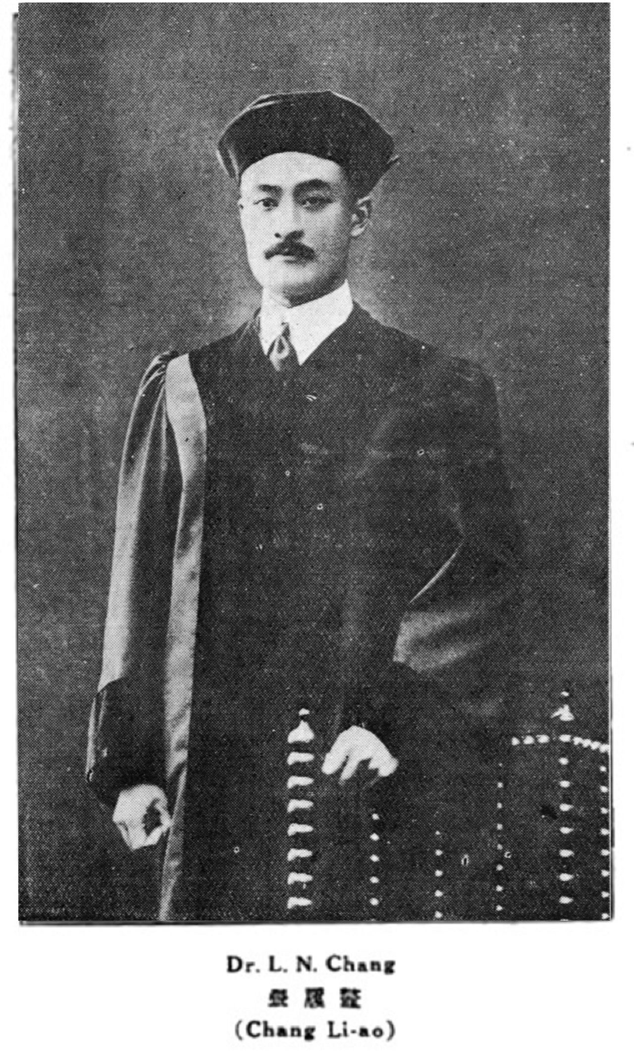 Zhang Lüao (1887－？)